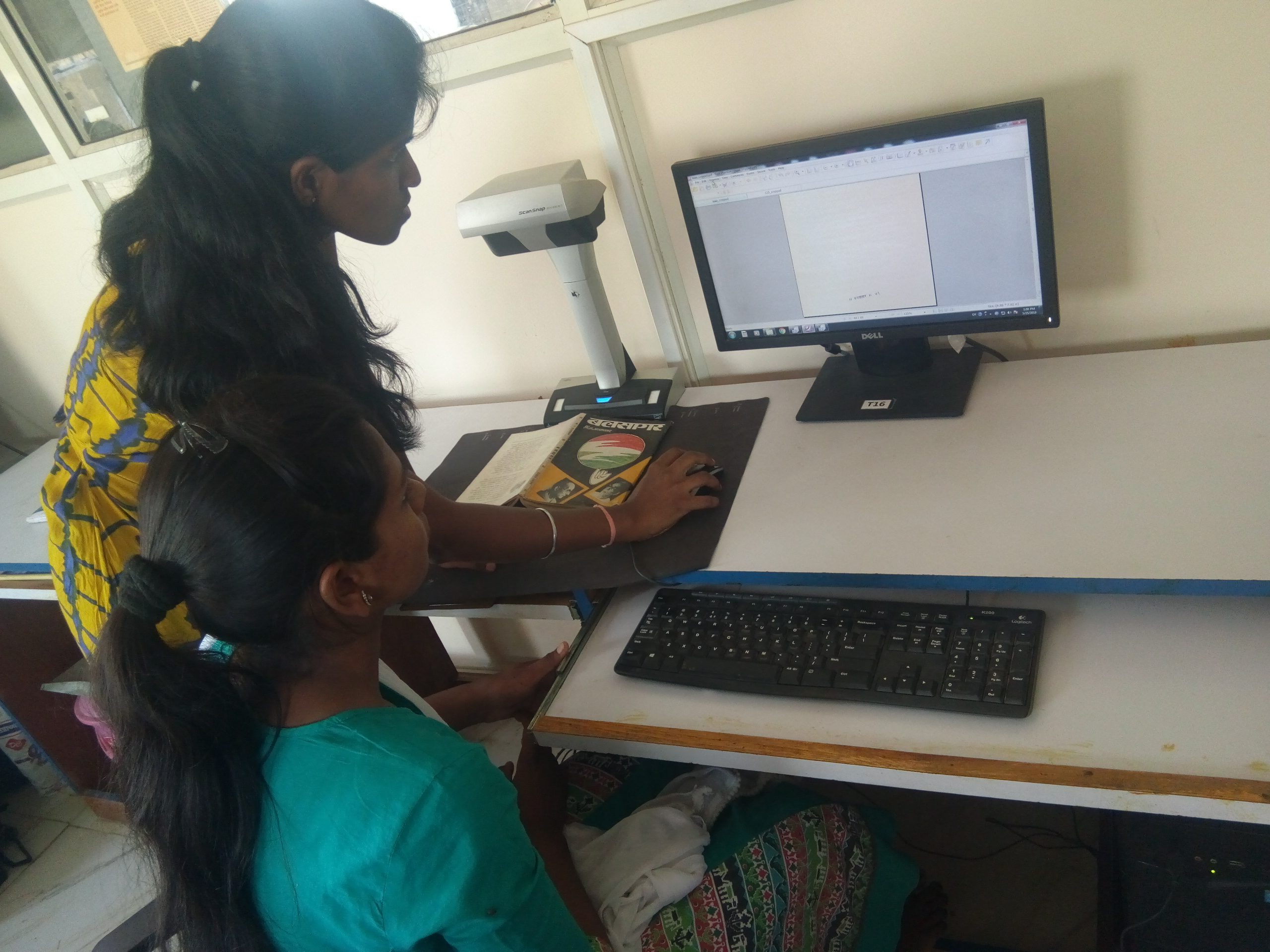 Participants learning in Wikisource workshop at Vigyan Ashram, Pabal